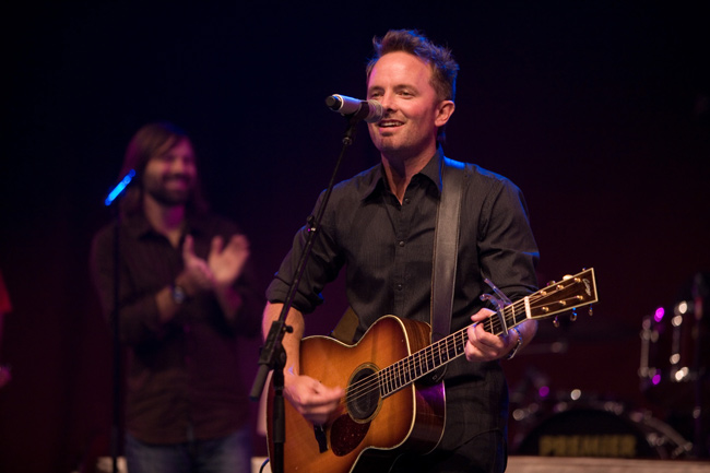 Concert for Glory Revealed 2 in Birmingham, AL